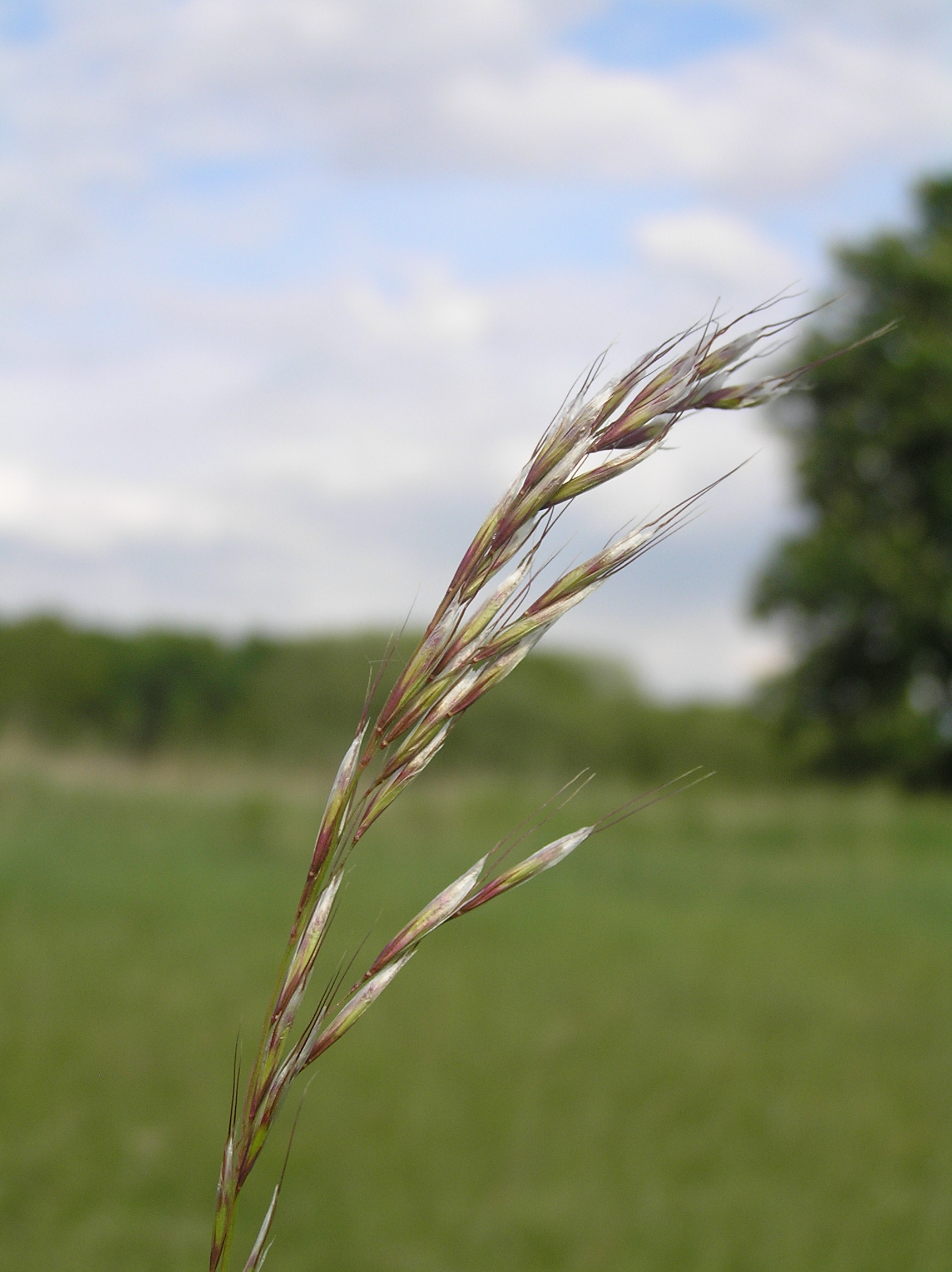 Avenula pratensis, syn.: Helictotrichon pratense, Lánské louky near Lanžhot, Southern Moravia, Czech Republic